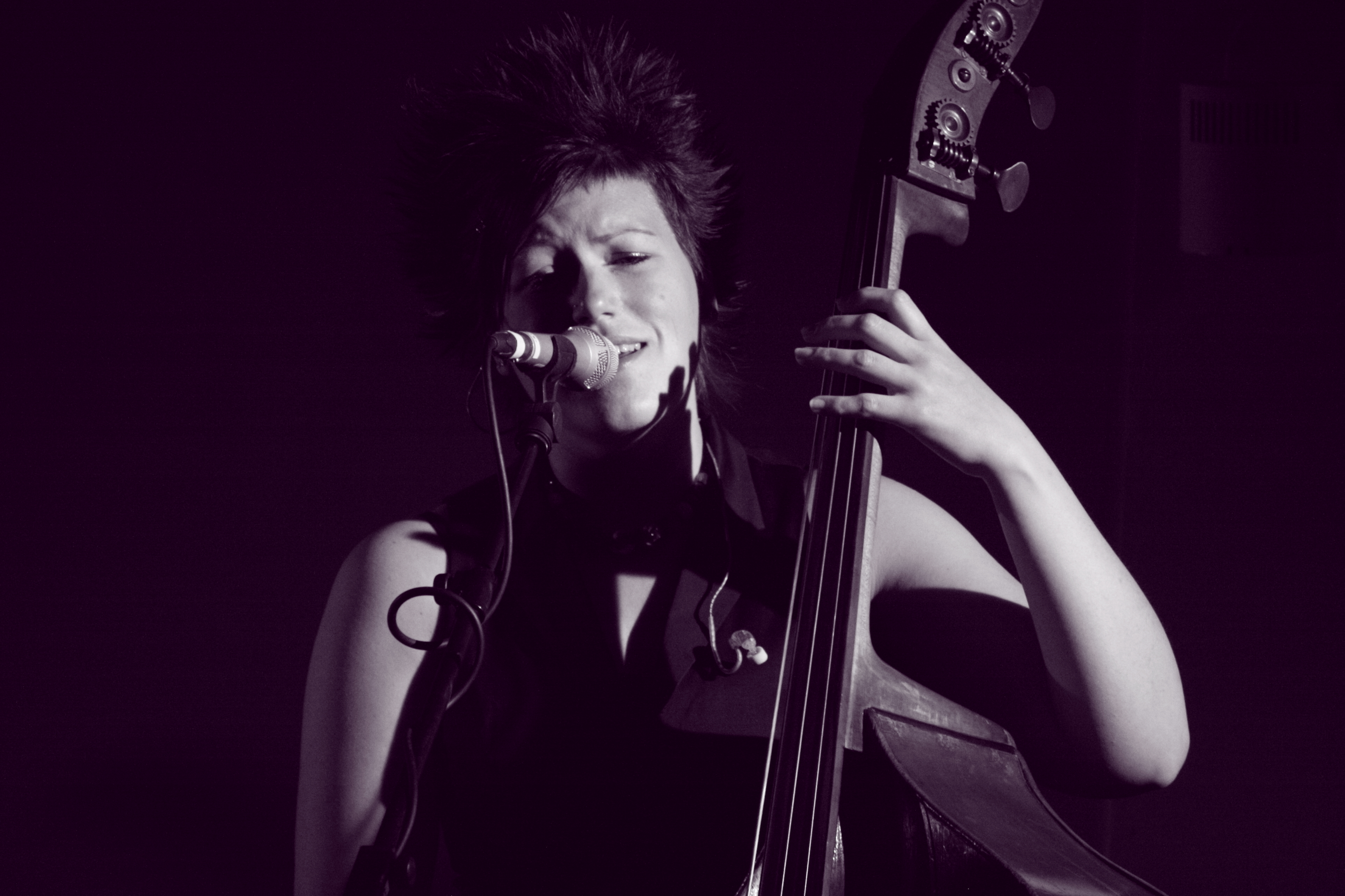 Miranda Sykes; Show of Hands, Harberton Village Hall, 20th May 2009